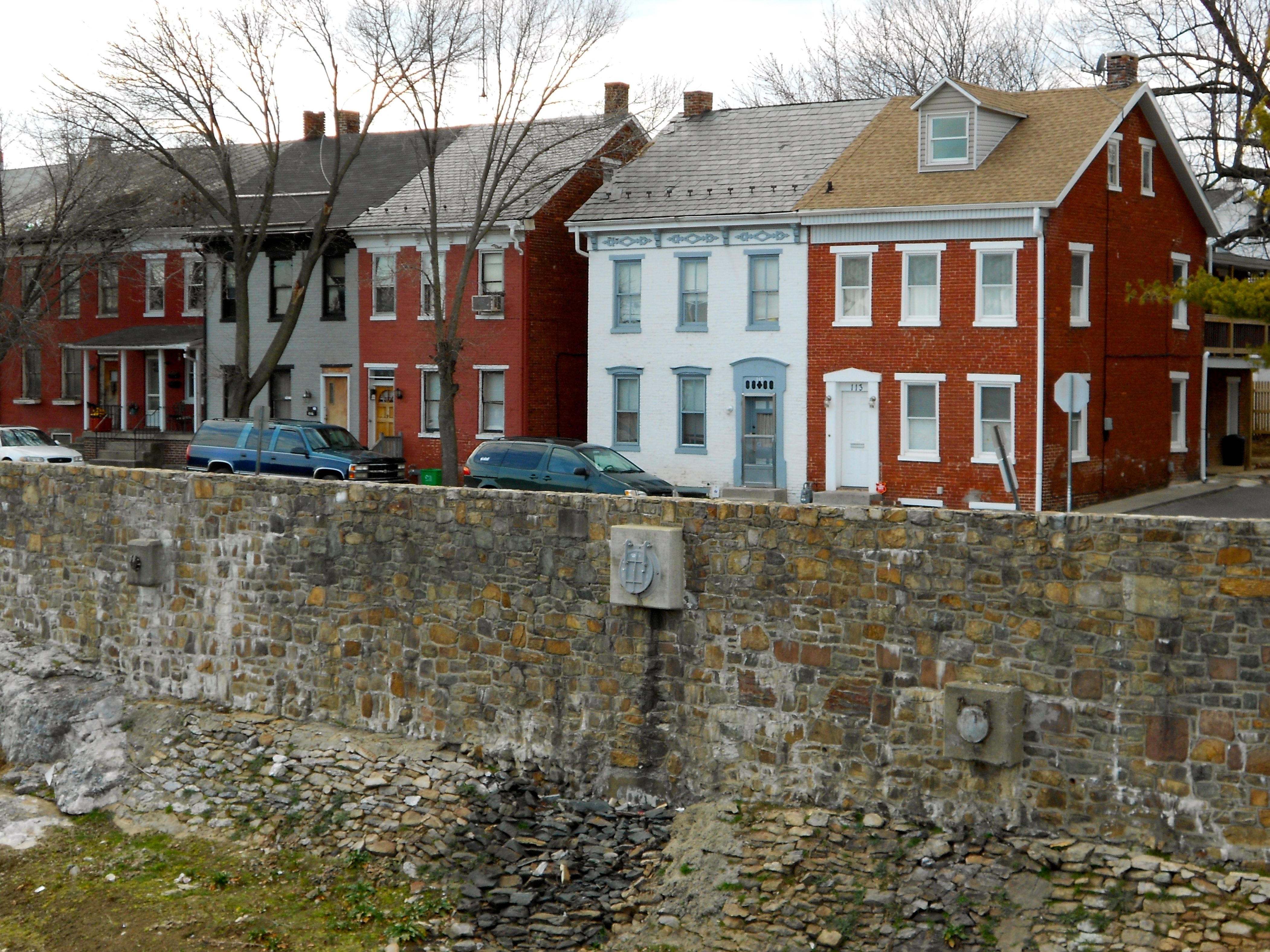 Houses on Stevens Ae. in the Fairmount Historic District on the NRHP since November 30, 1999. The HD is roughly bounded by Cherry Lane, Stevens Avenue, and Cottage Hill Road 39°58′03″N 76°43′59″W, York, York County, Pennsylvania